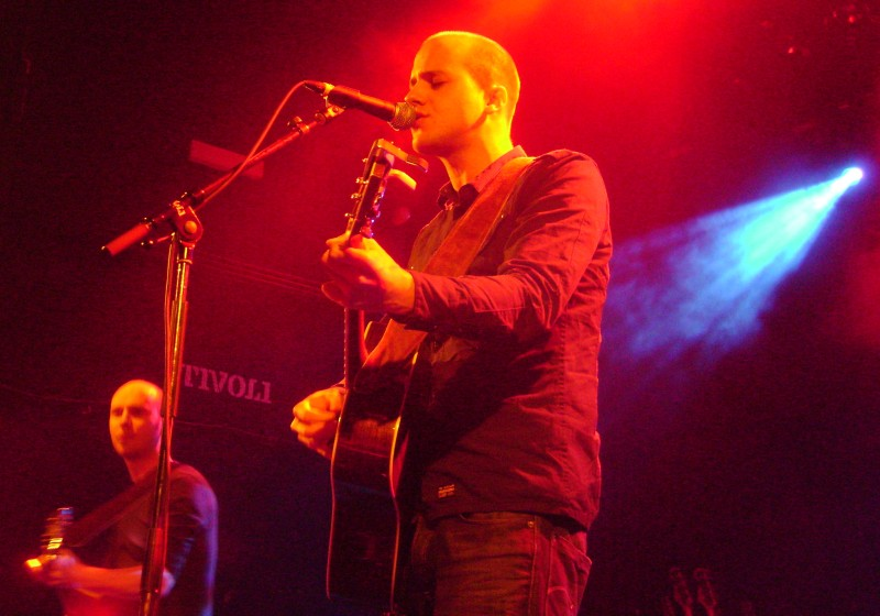 Belgian singer Milow, live in Utrecht, March 26, 2008